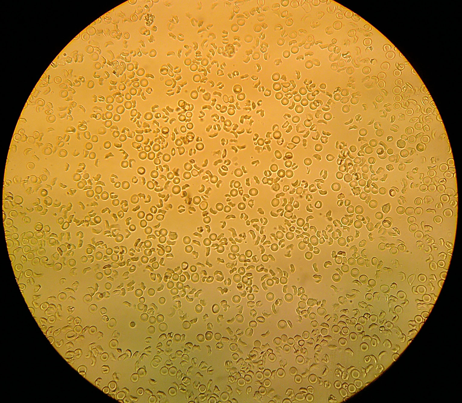 Microphotography - sample of urine with hematuria